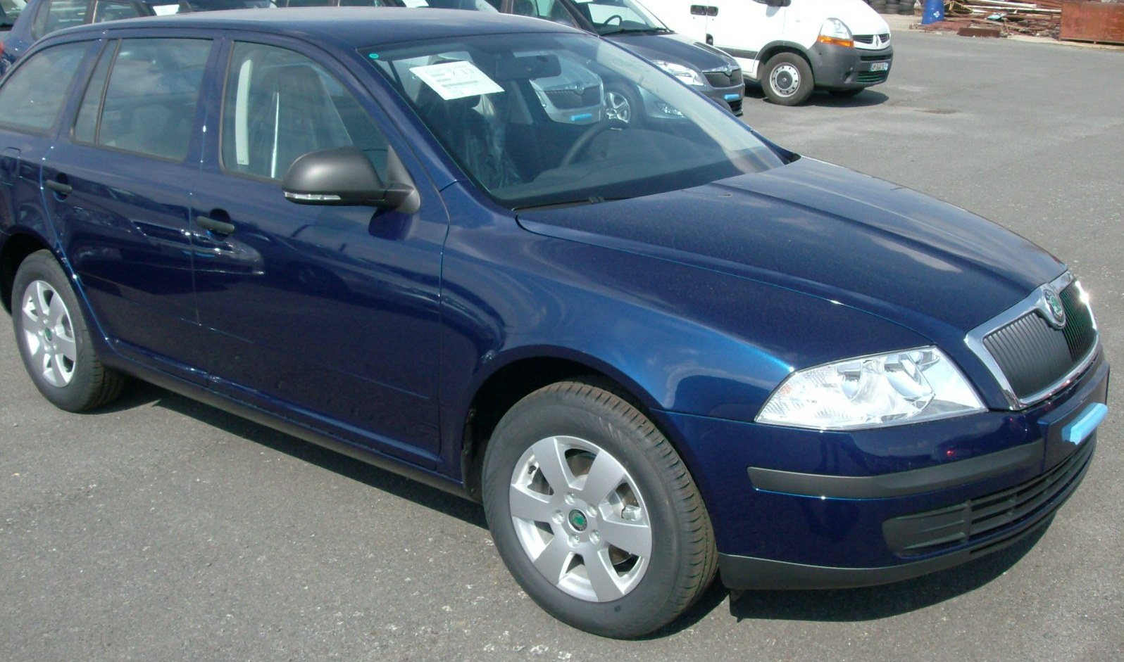 Škoda Octavia Tour 2 as delivered by factory (unpainted rear mirrors and door handles, no side protection door bars). Czech "Tour Trumf +" kit (15" alloy rims) in stormblue metallic.